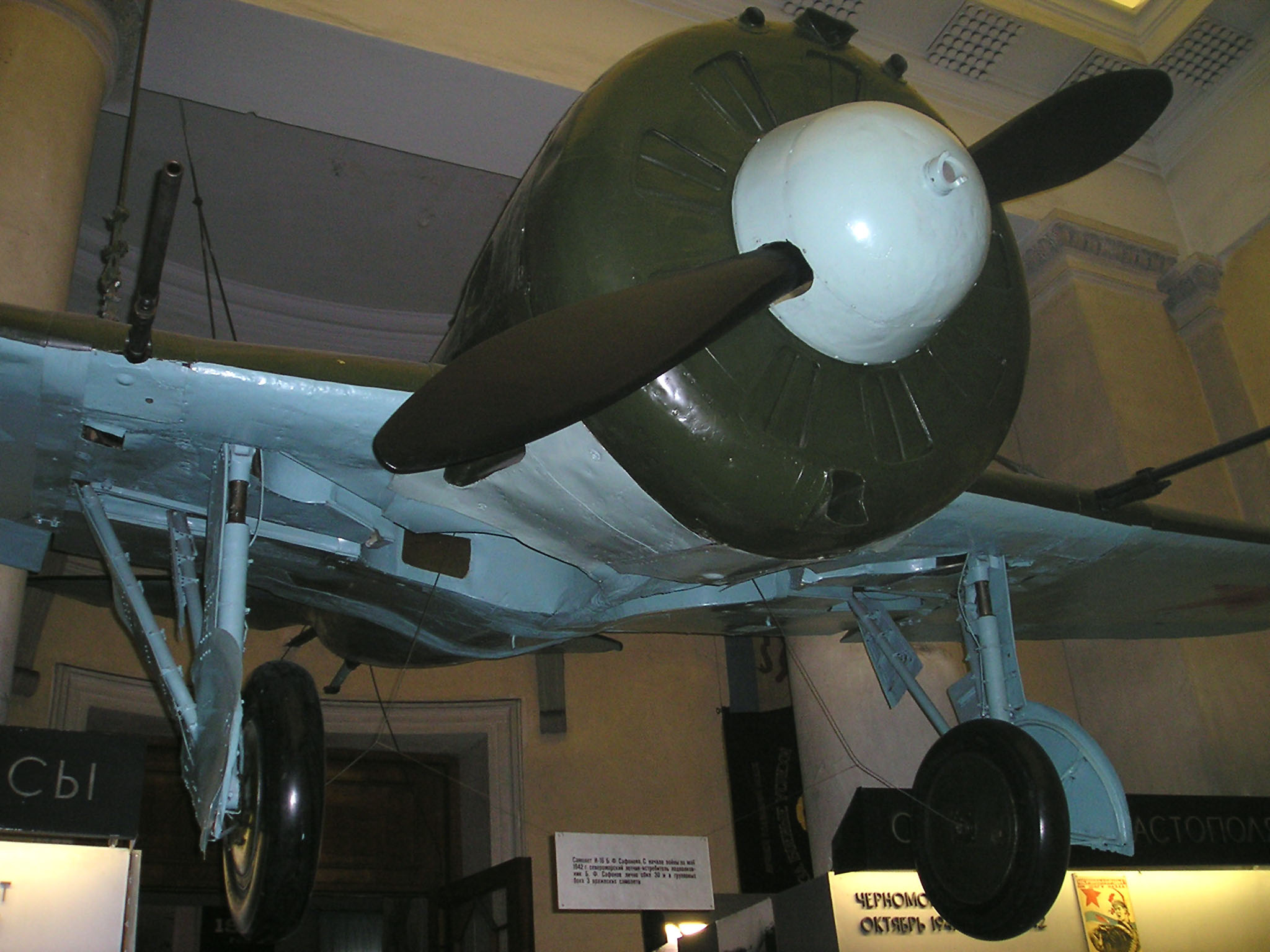 Fighter I-16 of the WW II hero I.B.Safonov. The exhibit of Navy Museum in Saint-Petersburg, Russia.